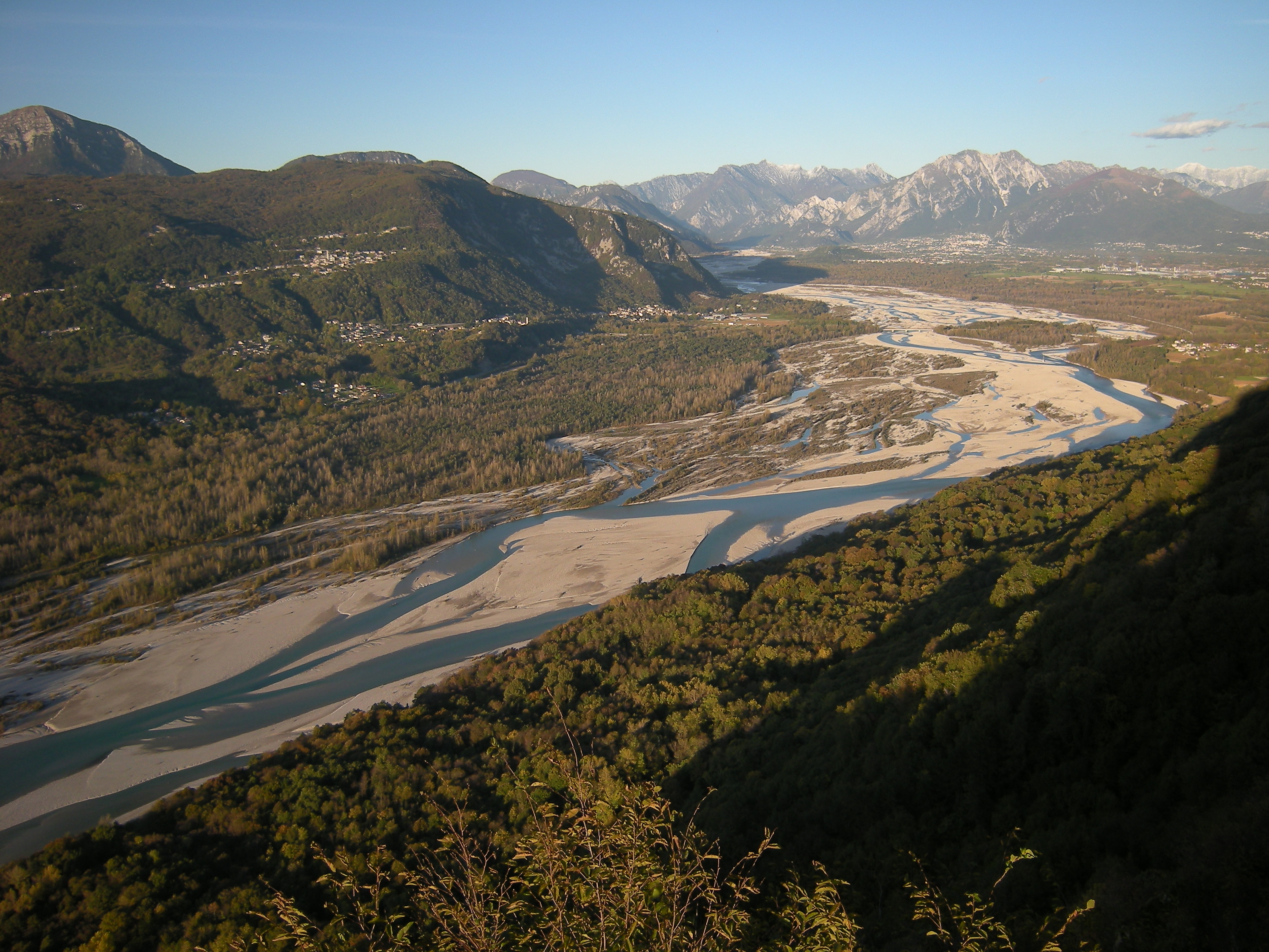 Tagliamento river from Monte di Ragogna, looking to Gemona